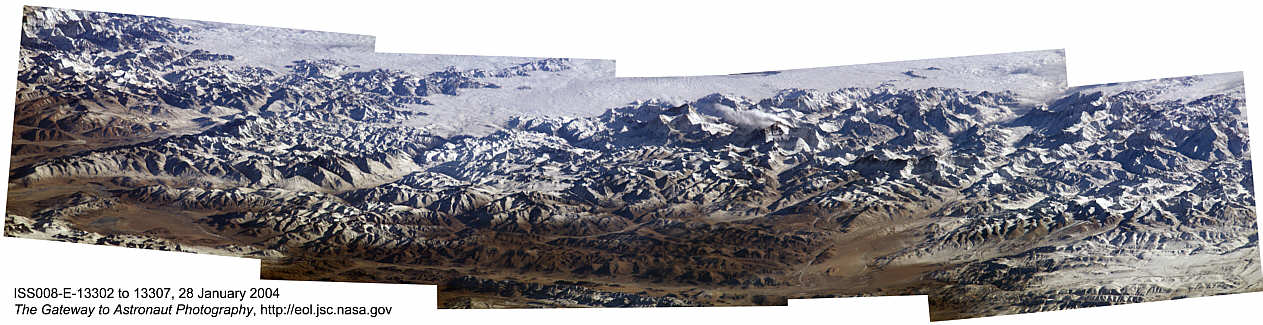 Himalaya Panorama